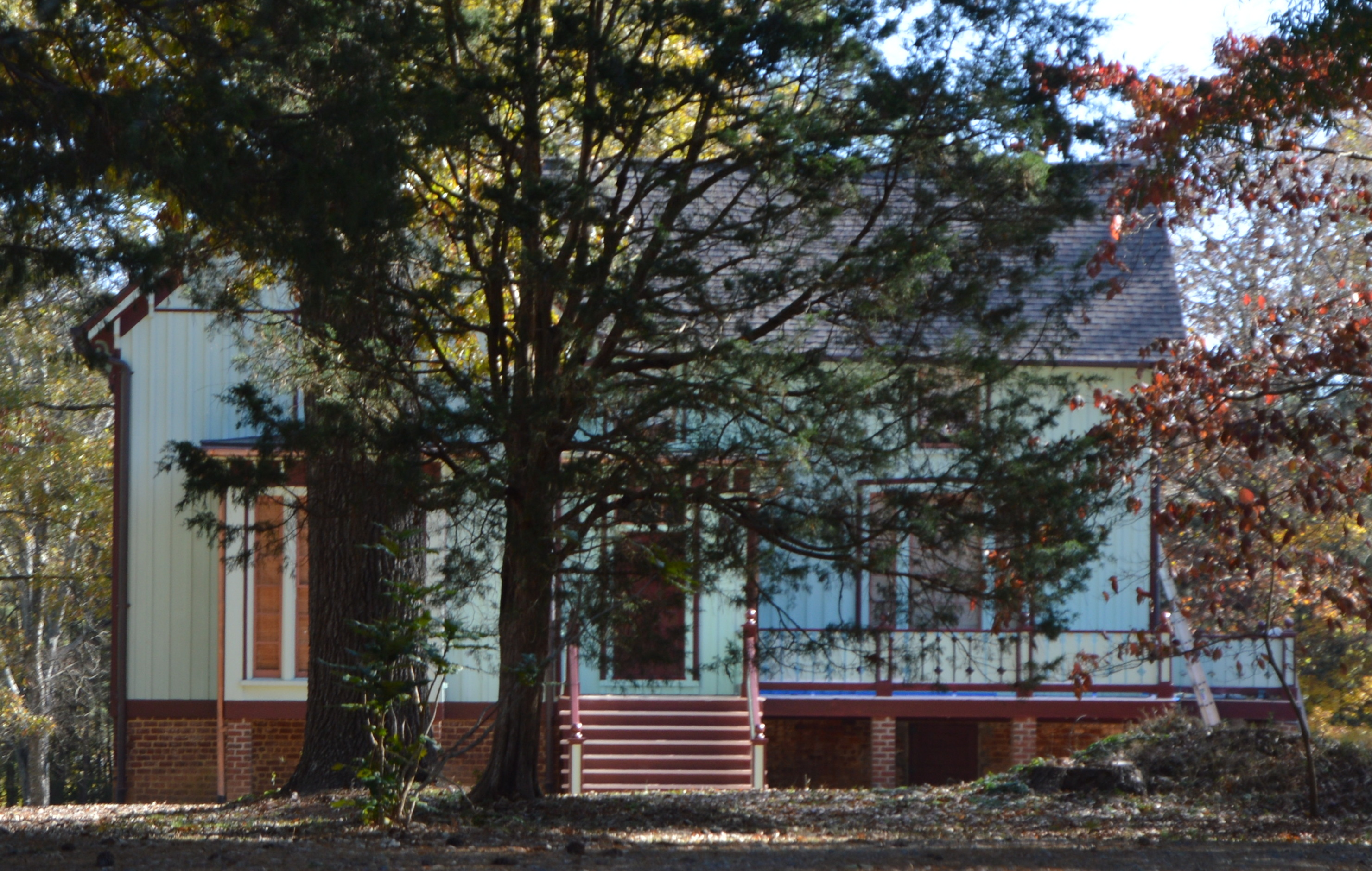 Front of the London Cottage, located on Old Graham Road just northwest of the Pittsboro city limits in Chatham County, North Carolina, United States. Built in 1861, it is listed on the National Register of Historic Places.